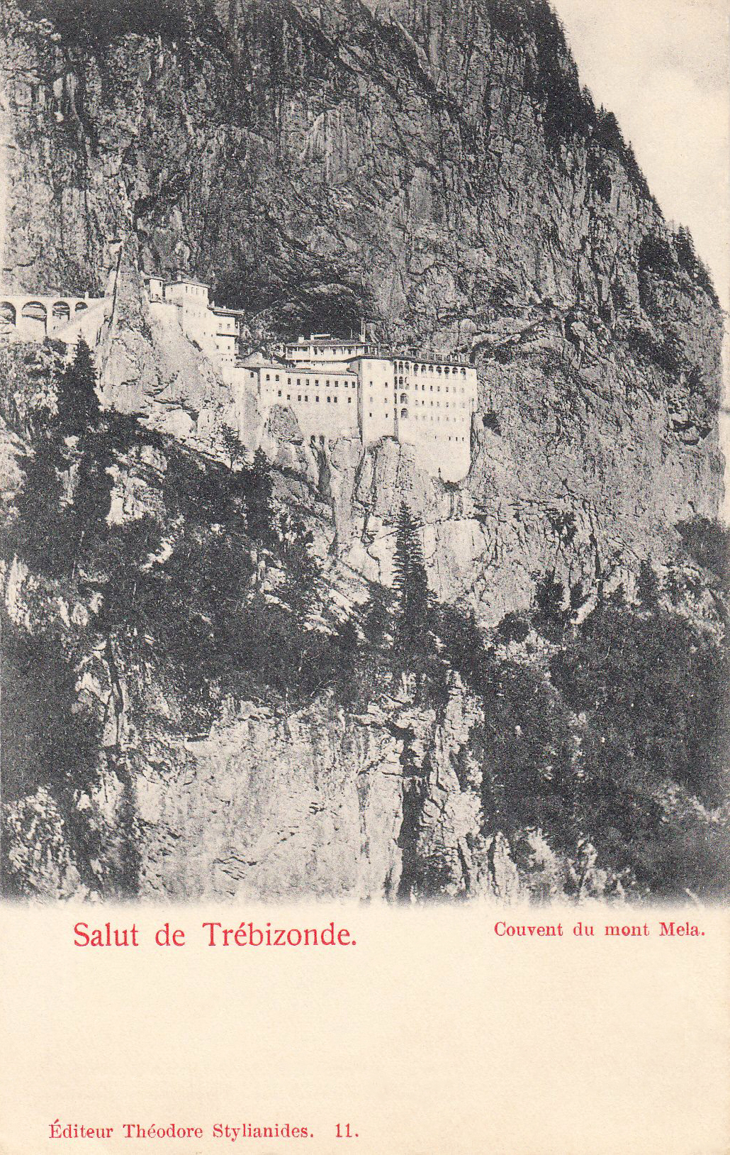 Postcard of Sumela monastery near Trebizond (Trabzon, Turkey).